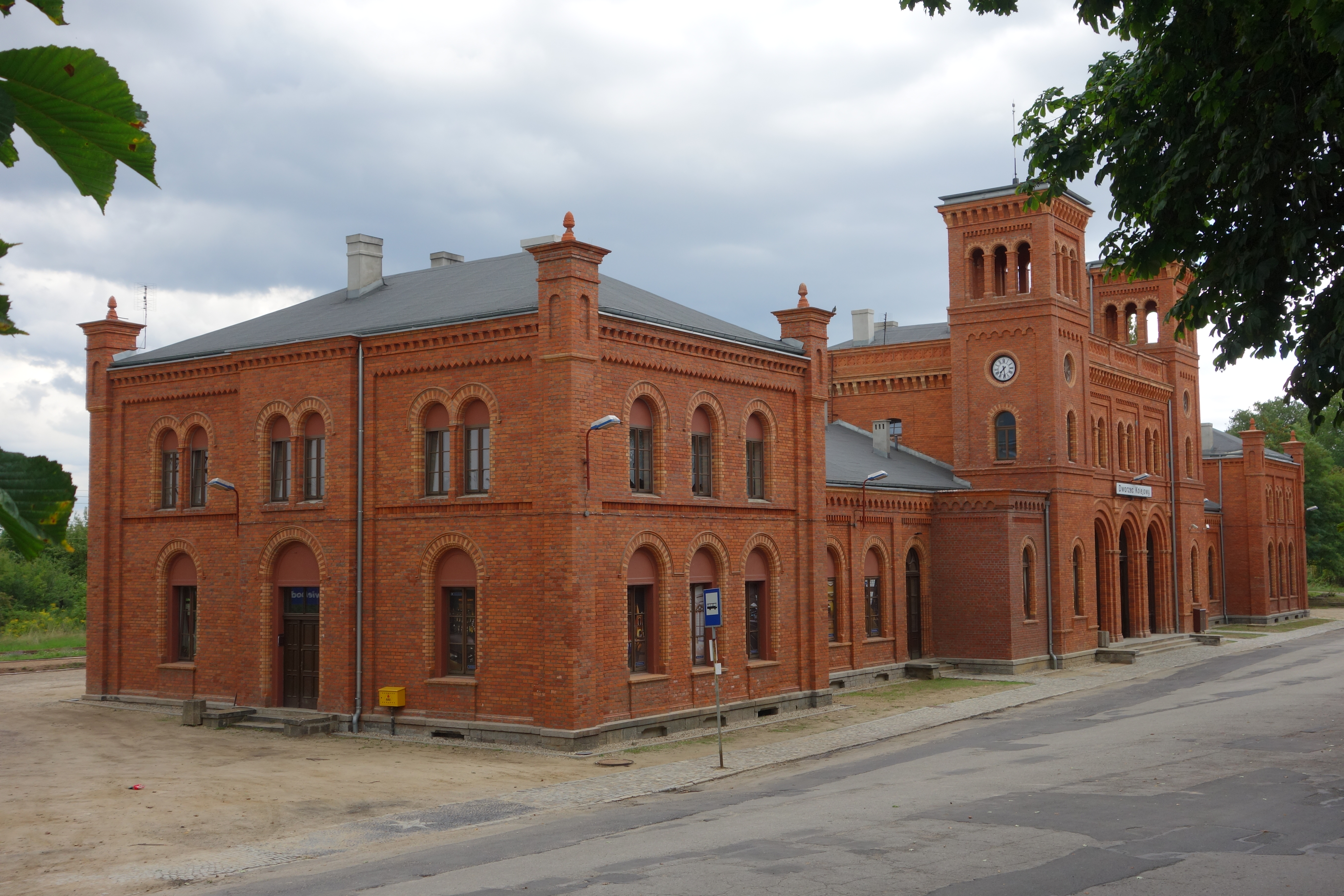 Świebodzice - dworzec kolejowy This photo was taken during Railway Wikiexpedition 2014 set up by Wikimedia Polska Association in cooperation with Fundacja Grupy PKP. You can see all photographs in category Wikiekspedycja kolejowa 2014. English | Polski | +/−